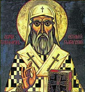 Icon, depicting Euthymius of Tarnovo, created by the painters of Samokov Artistic School, 1809